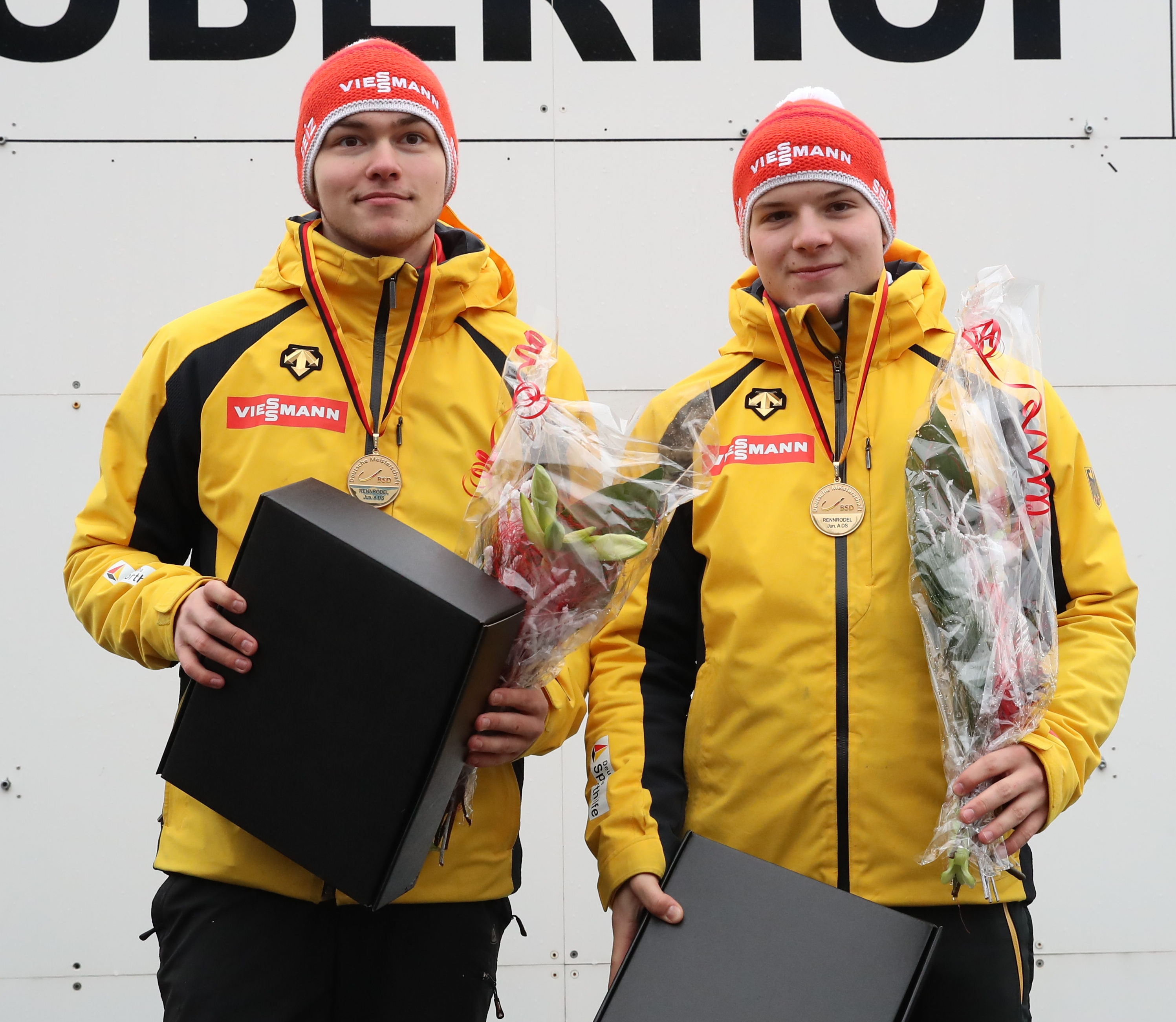 Victory Ceremony at the German Luge Championships 2019 in Oberhof